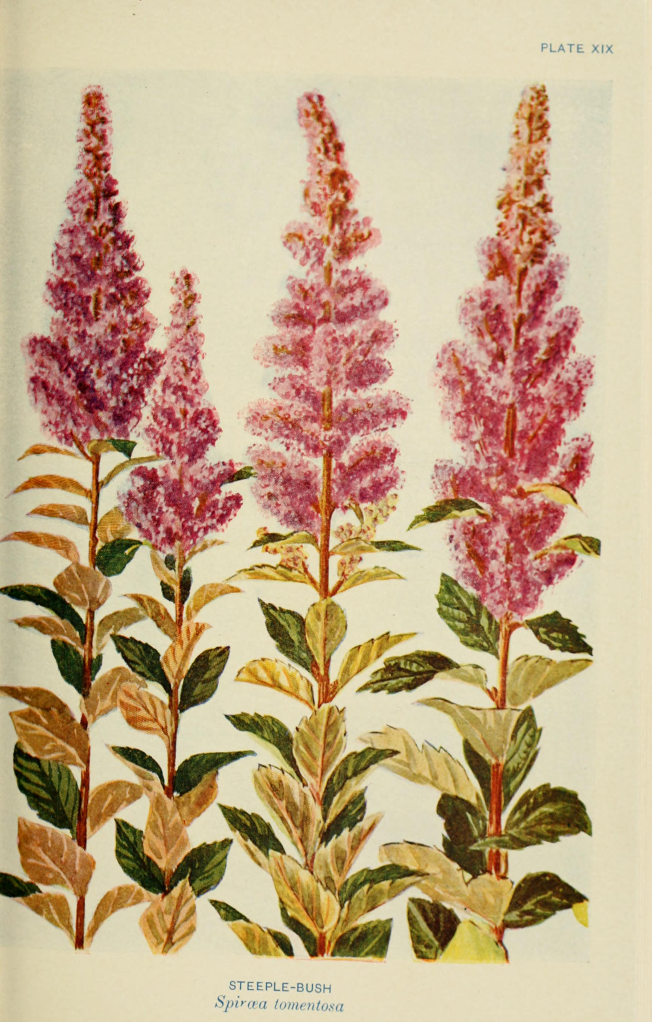 Title: According to season; talks about the flowers in the order of their appearance in the woods and fields Year: 1902 (1900s) Authors: Parsons, Frances Theodora, 1861-1952 Subjects: Flowers Publisher: New York, Scribner Text Appearing Before Image: PLATE XIX Text Appearing After Image: STEEPLE-BUSH Spircea tomentosa